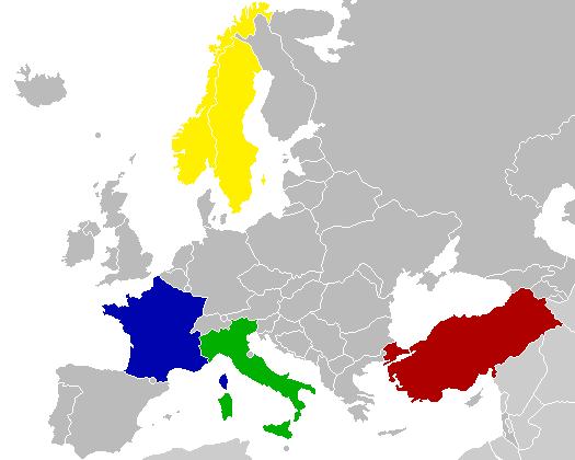 Bids for hosting Euro 2016. Key Green - Italy Yellow - Norway and Sweden Red - Turkey Blue - France Grey - No bid